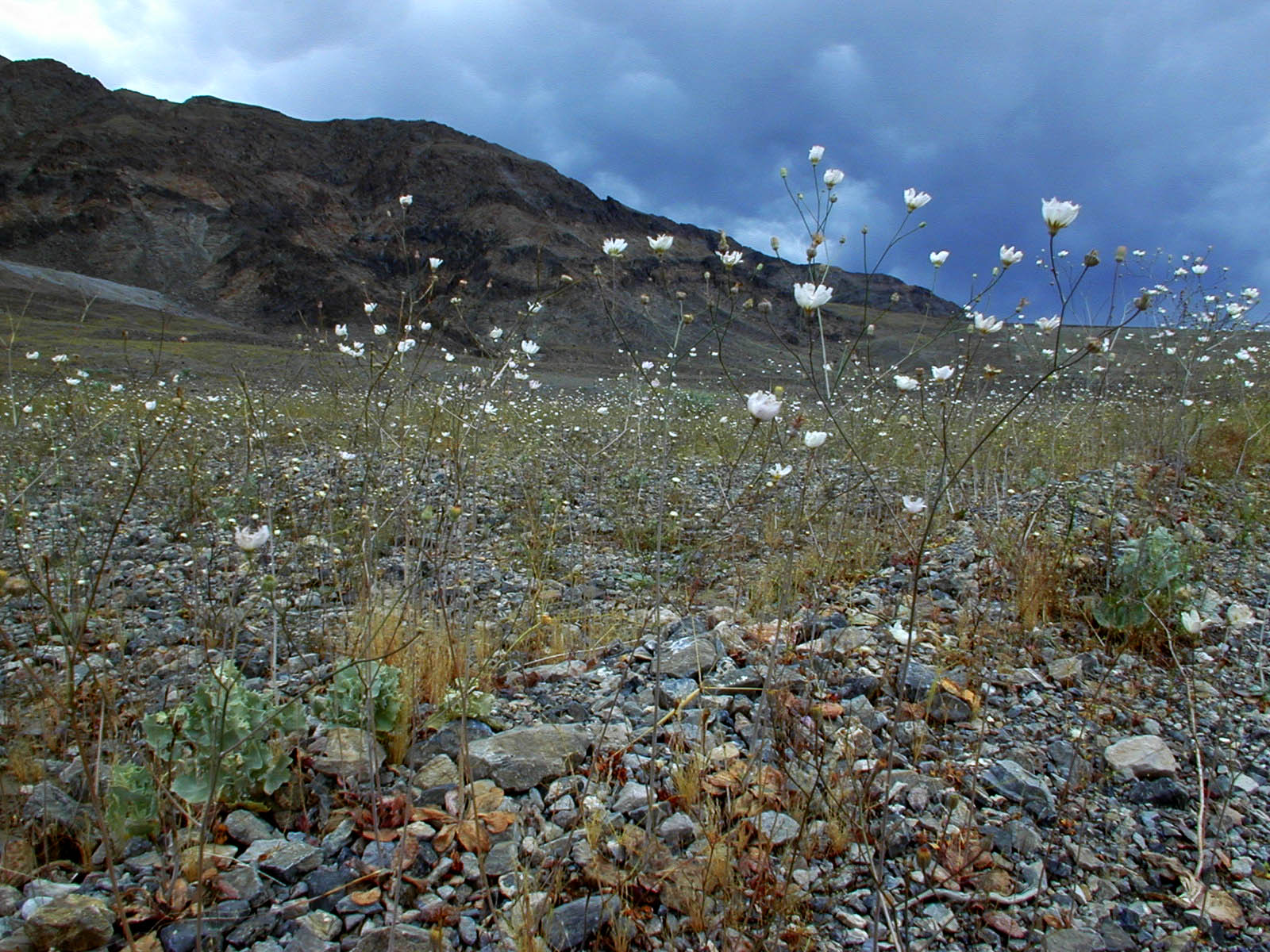 Gravel Ghost, A.K.A. Atrichoseris platyphylla. (Calflora) (eNature)